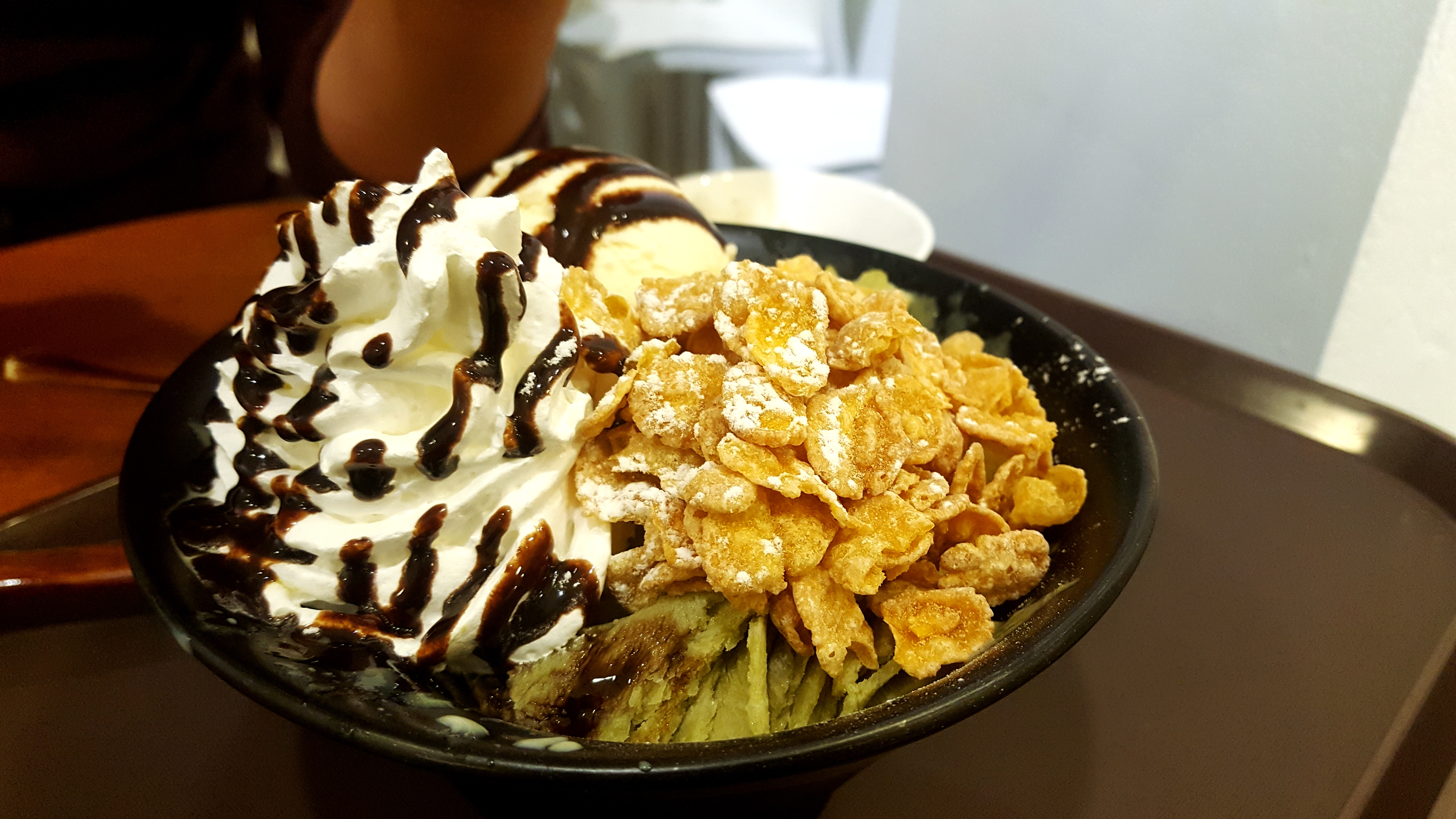 Green tea bingsu (nokcha bingsu)